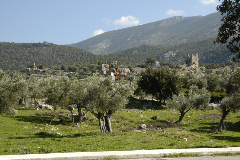 J. M. Harrington, personal digital image